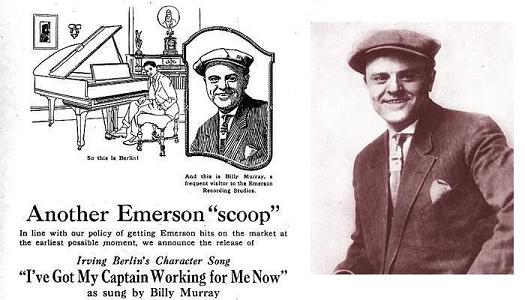 This is a combination of a sketch-ad from 1919 and the photo on which the Billy Murray portion of the ad was based.